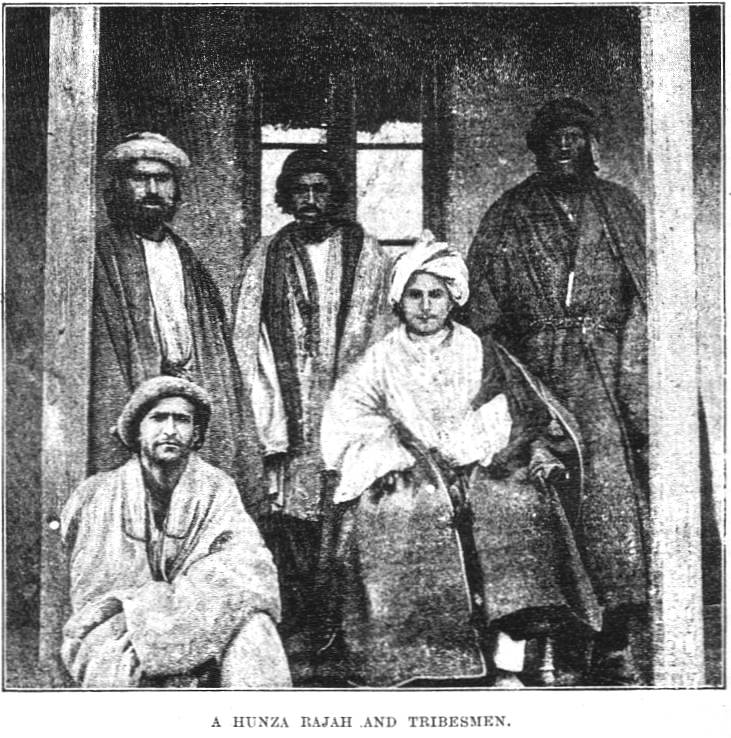 Taken from E. F. Knight's "Where Three Empires Meet" 1893. No copyright Bild:A Hunza Rajah and Tribesmen.jpg Afbeelding:A Hunza Rajah and Tribesmen.jpg